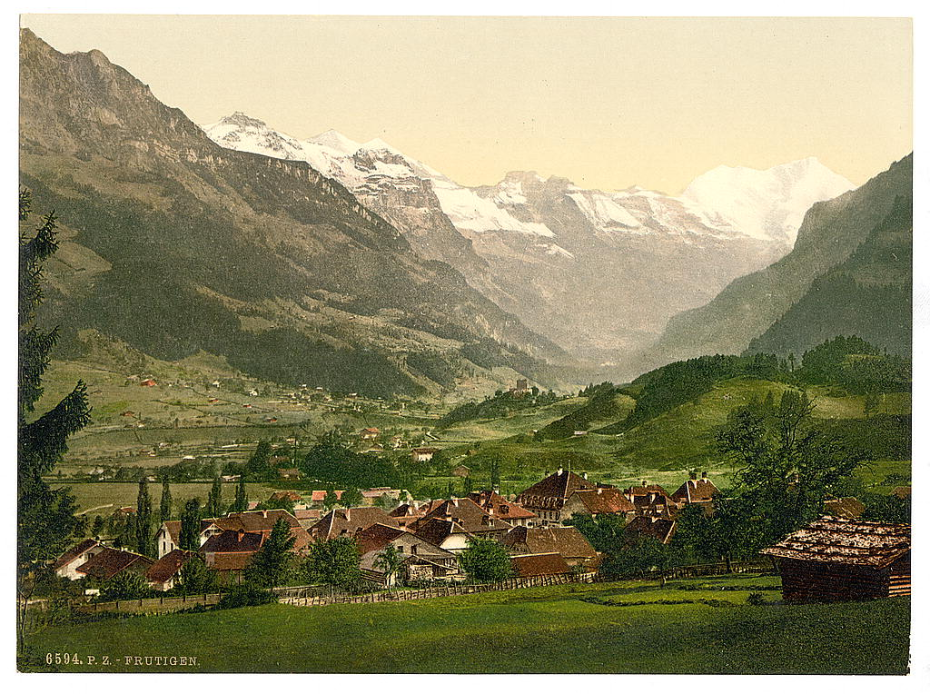 Forms part of: Views of Switzerland in the Photochrom print collection.; Print no. "6594".; Title from the Detroit Publishing Co., Catalogue J-foreign section, Detroit, Mich. : Detroit Publishing Company, 1905.